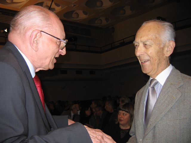 Władysław Bartoszewski (Warsaw, 19.02.1922, - Warsaw, 24.4.2015), Polish historian, publicist, writer and diplomat and Olgierd Budrewicz (1923-2011), Polish writer and journalist